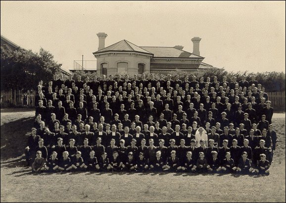 circa 1939 School photo